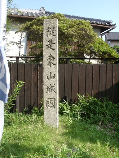 Border between Kyoto and Osaka